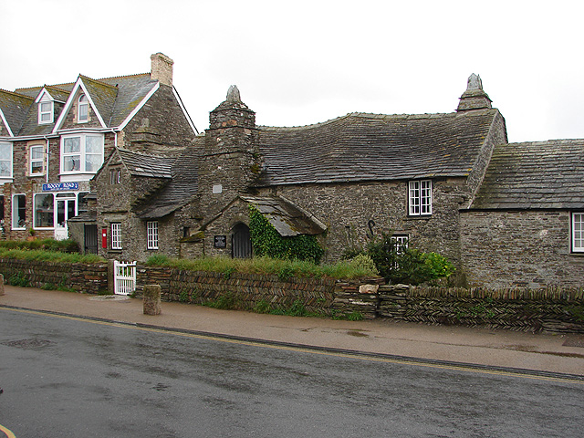 The Old Post Office, Tintagel